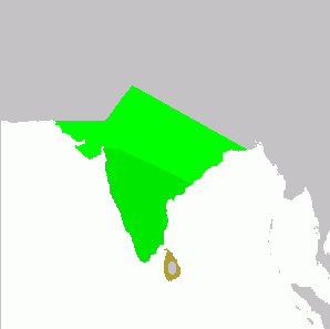 Distribution map of saxicoloides fulicatus. Three races in different shades.